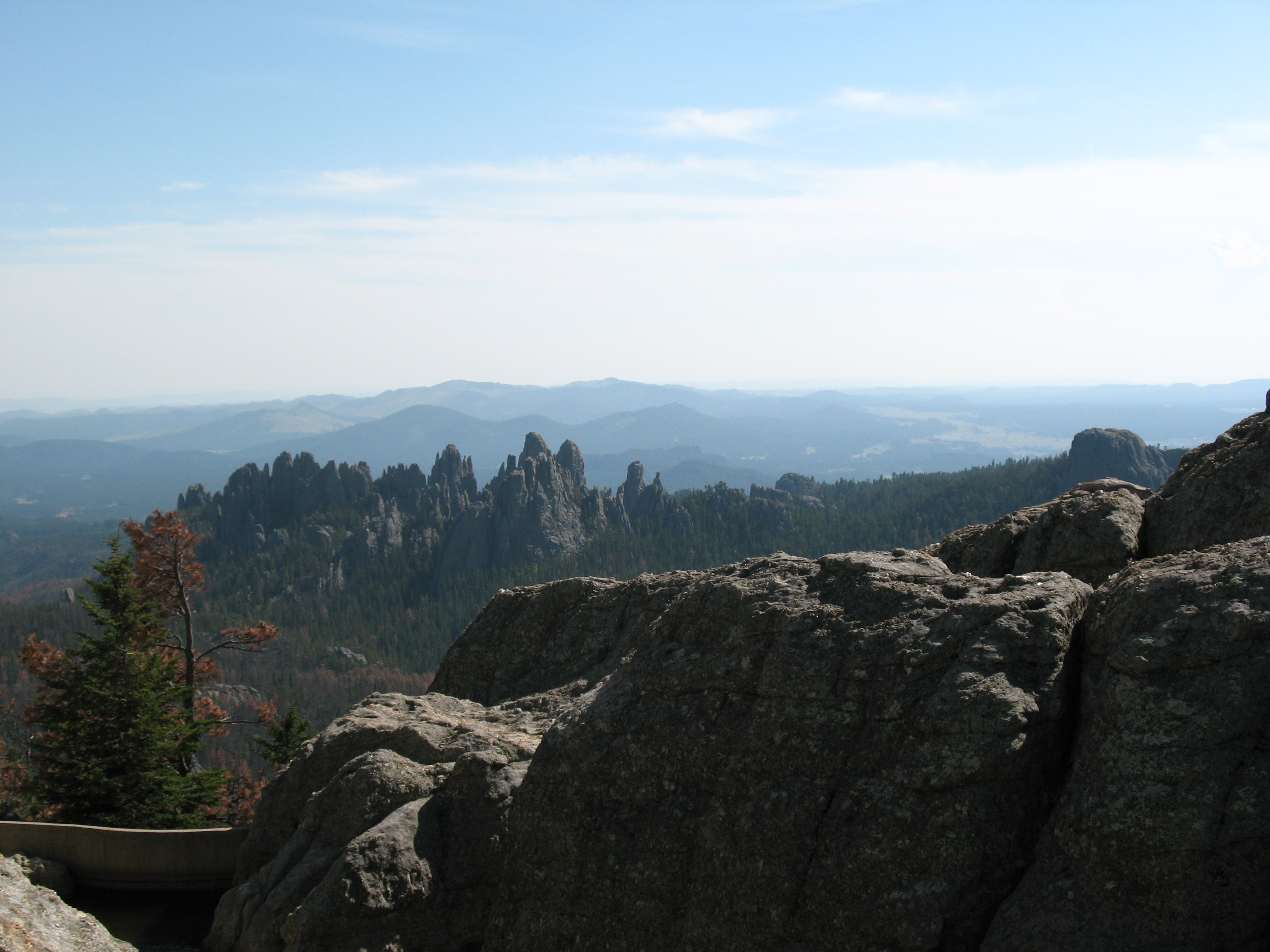 The Needles as seen from the top of Harney Peak.